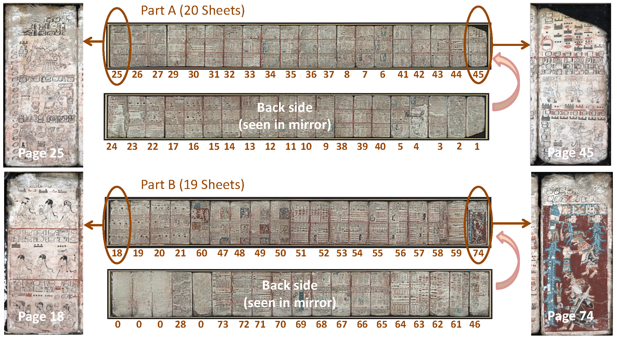 Today‘s exhibition of the Dresden Codex in two parts